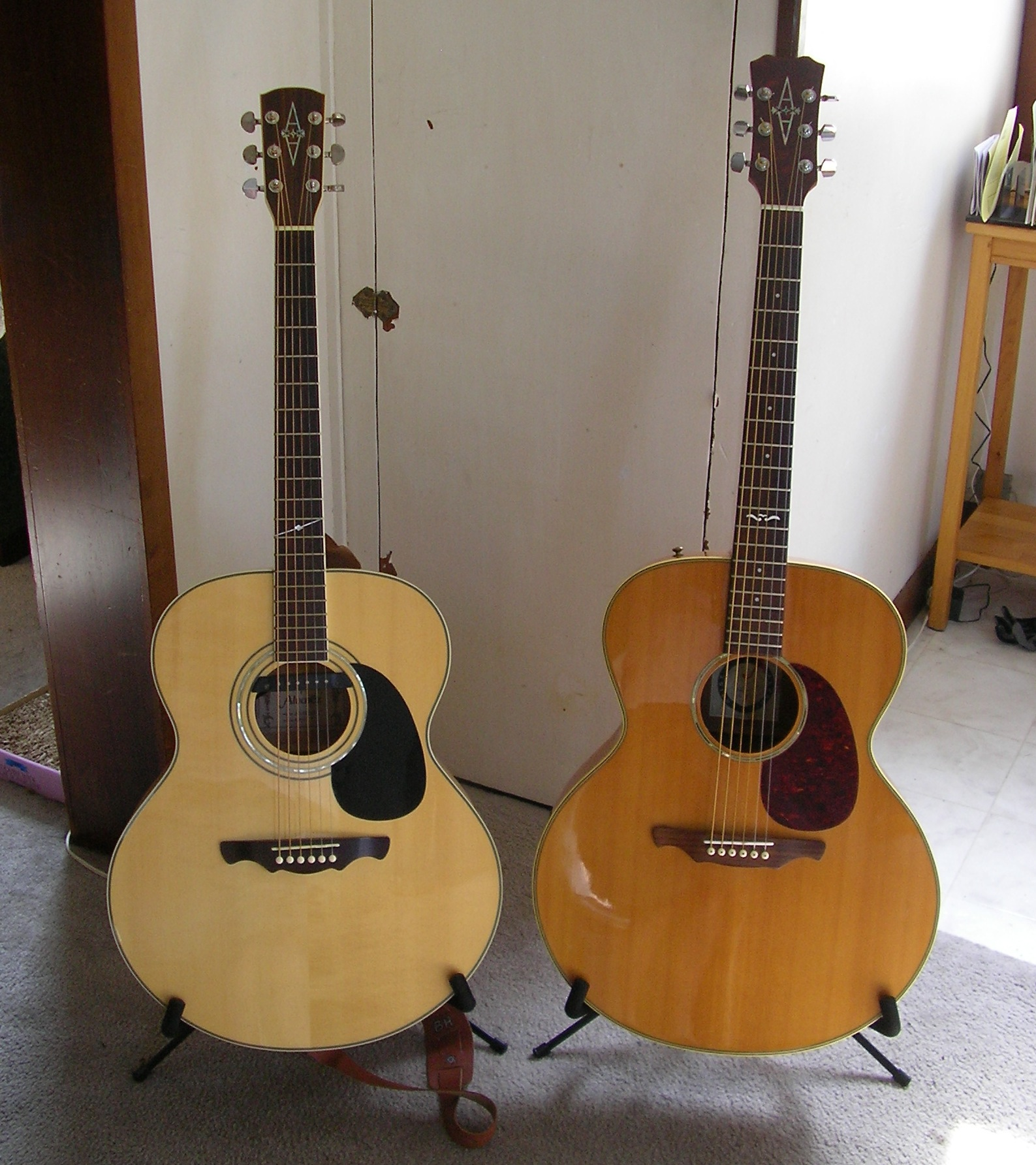 Left: Model AJ60S, ca. 2000. My workhorse, and the nicest guitar I've ever owned. Solid spruce top, laminated maple back/sides. Right: Model 5072, ca. 1994 or so. A recent acquisition, intended for use at my synagogue teaching gig beginning in the fall. Laminated Spruce top, laminated mahogany back/sides.